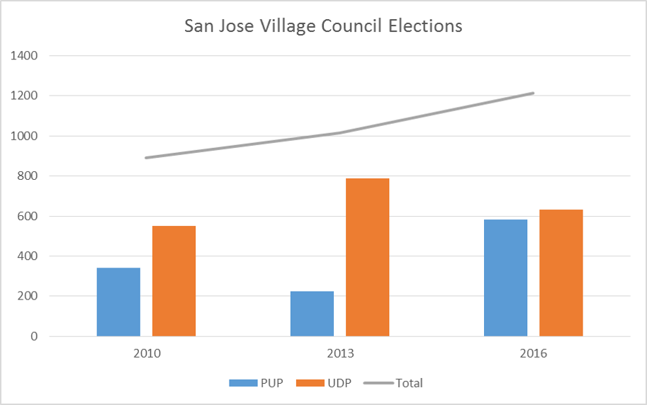 Chart depicting election results for San Jose